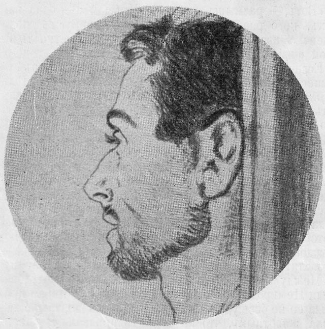 Mateo Morral (Sabadell, 1880 - Torrejón de Ardoz, Madrid, 1906), spansih anarchist, who tried to assasinate Alfonso XIII of Spain in 1906